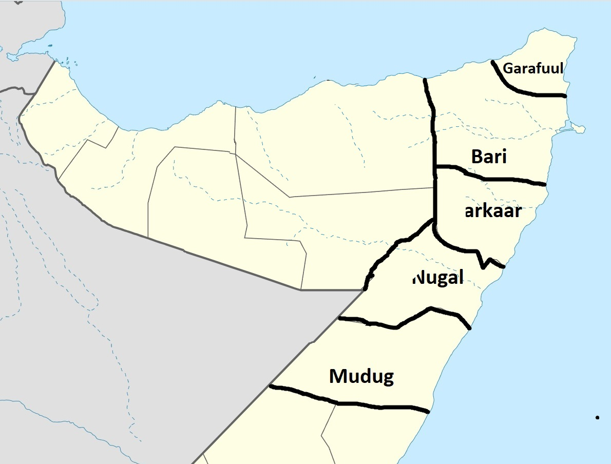 New map showing new regions in Puntland